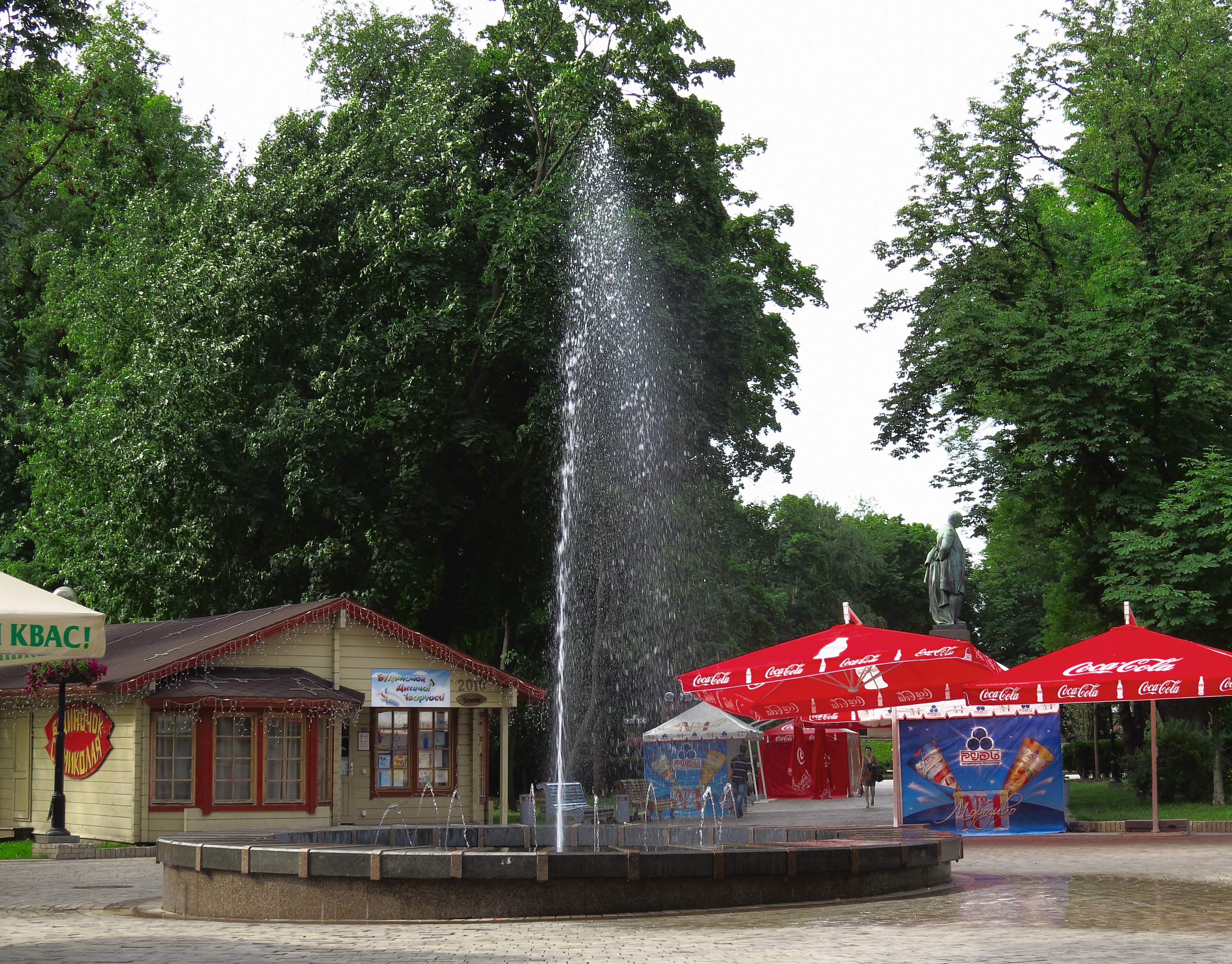 Shevchenko park, Kiev, Ukraine